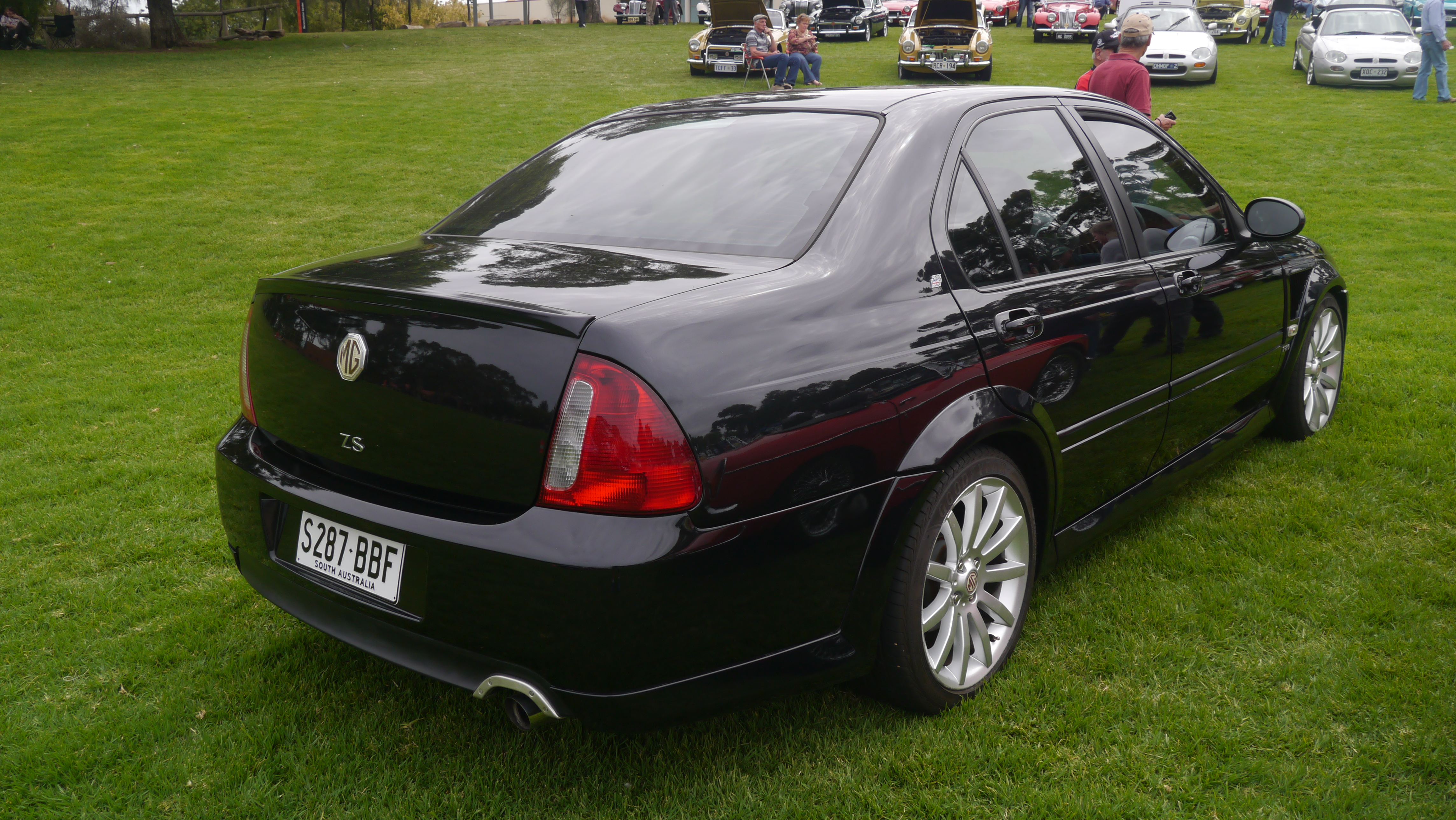 These were released in Australia in November 2004 and was sold only in sedan form, the 5dr hatch never made it here. Again, these were never sold under the Rover brand here and they only lasted until April 2005, when MG Rover withdrew from the Australian market.